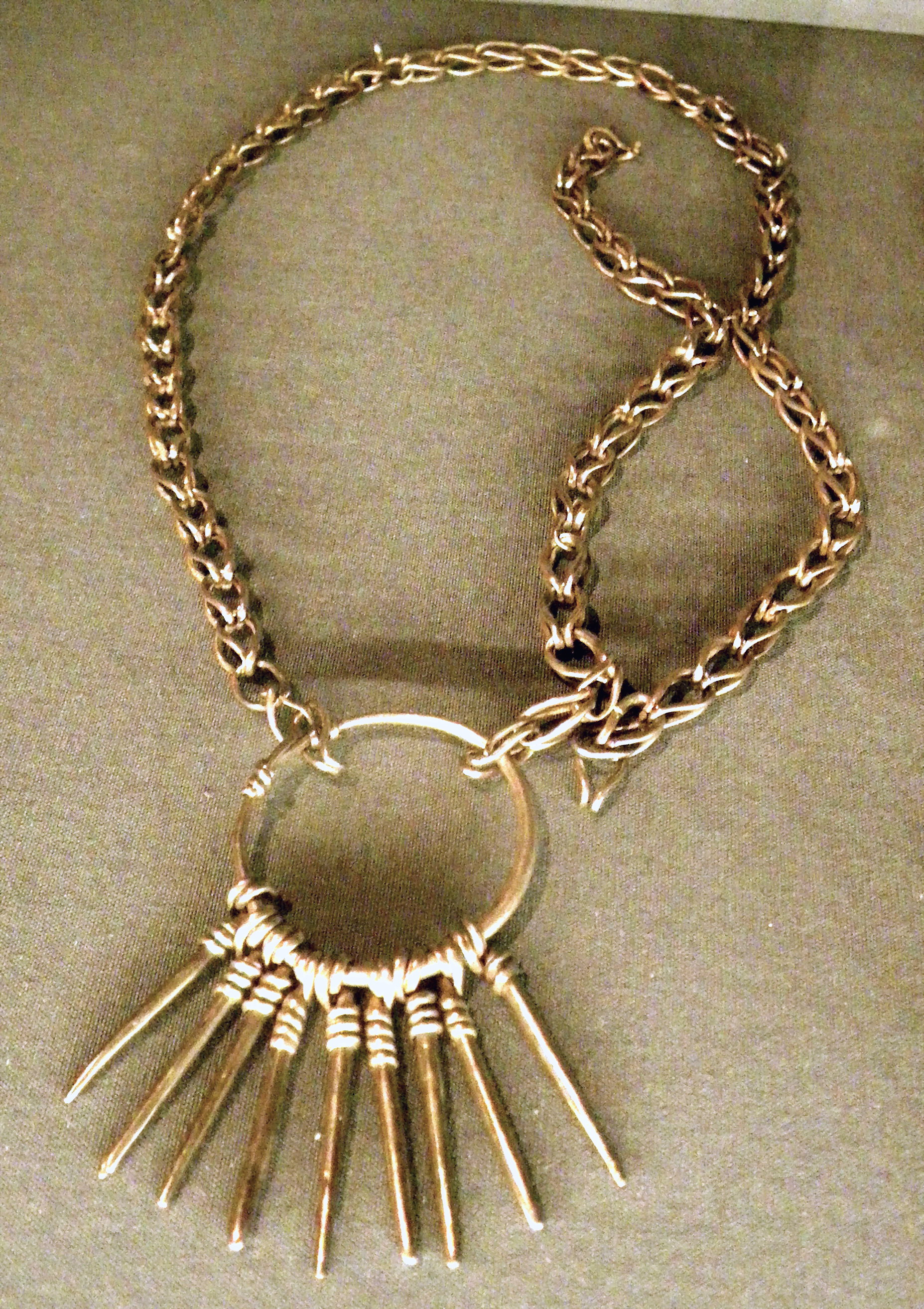 Dacian gold collection in Kunsthistorisches Museum